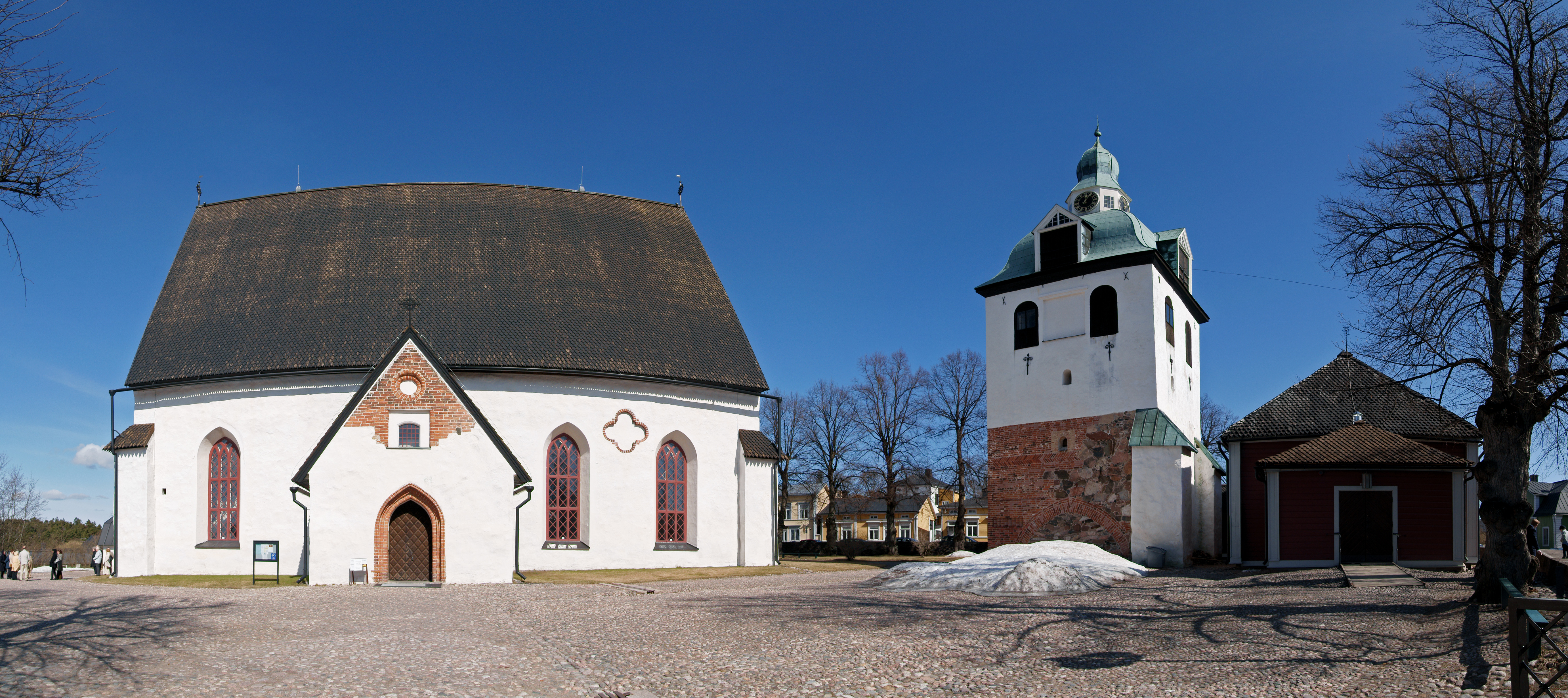 Porvoo Cathedral.